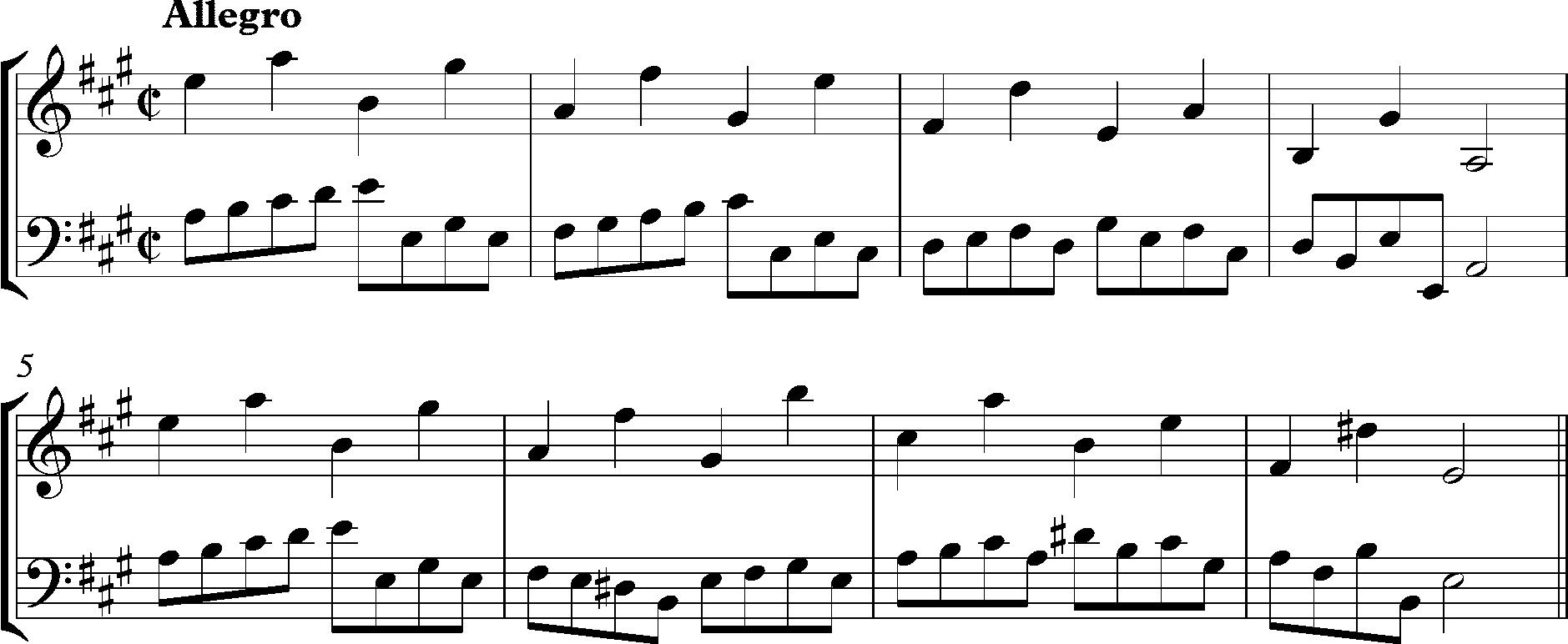 Corelli Violin Sonata Op 5 No 9, Tempo di Gavotta